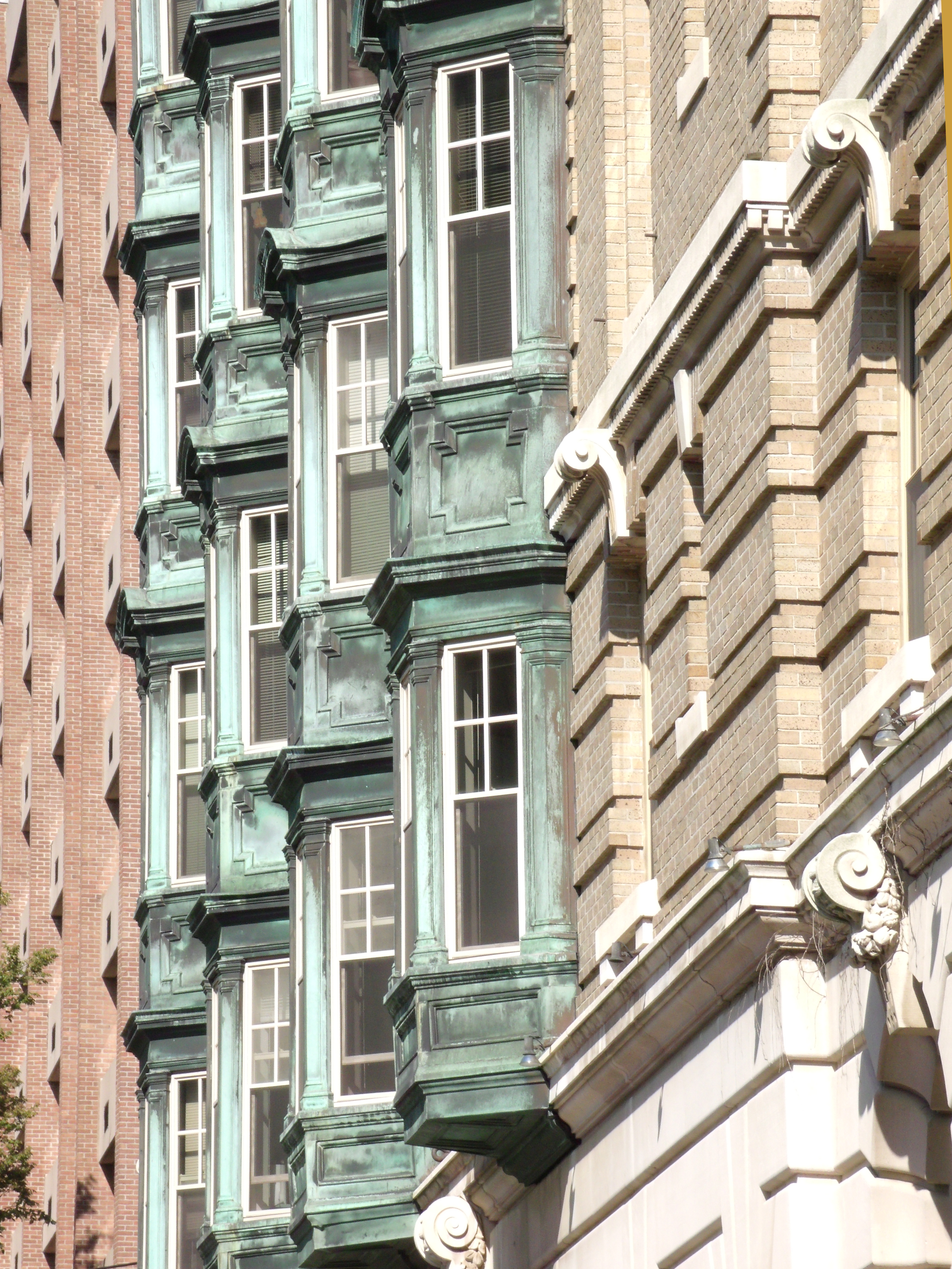 Bay windows on the former Elton Hotel (now an assisted living facility) in the Downtown Waterbury Historic District in Waterbury, Connecticut